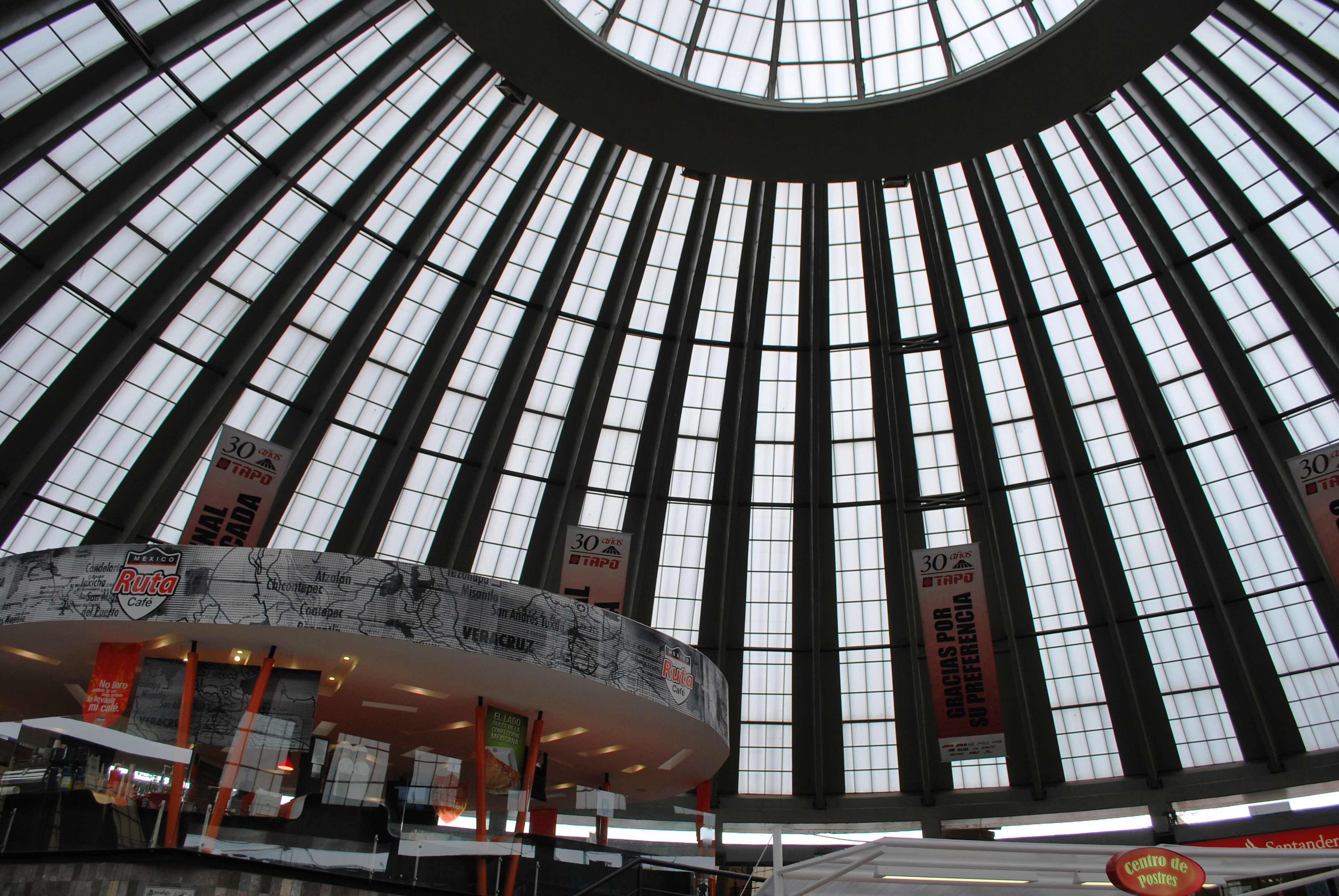 Ceiling of the TAPO bus station in Mexico City